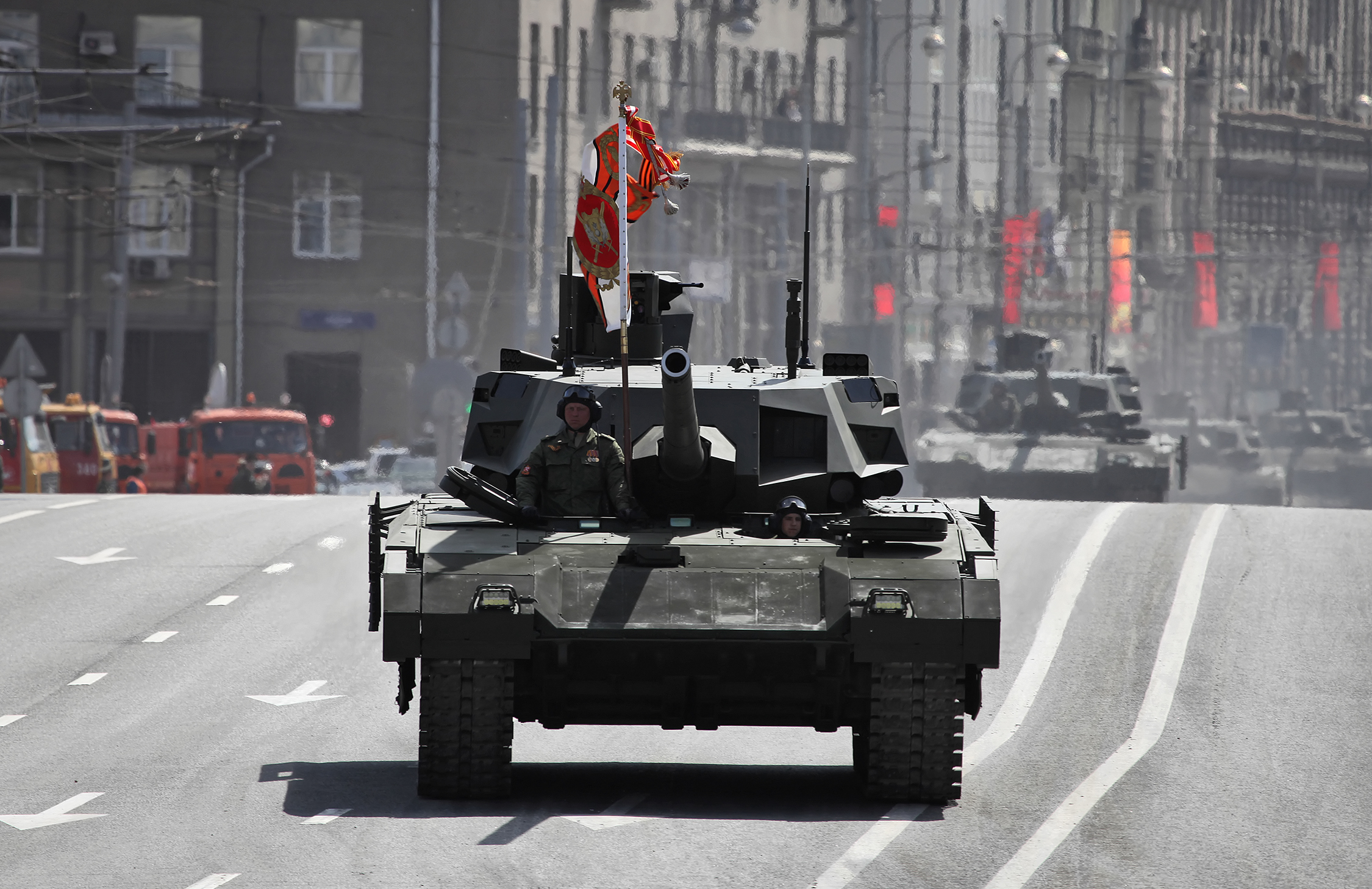 Main battle tank T-14 object 148 Armata (in the streets of Moscow on the way to or from the Red Square)